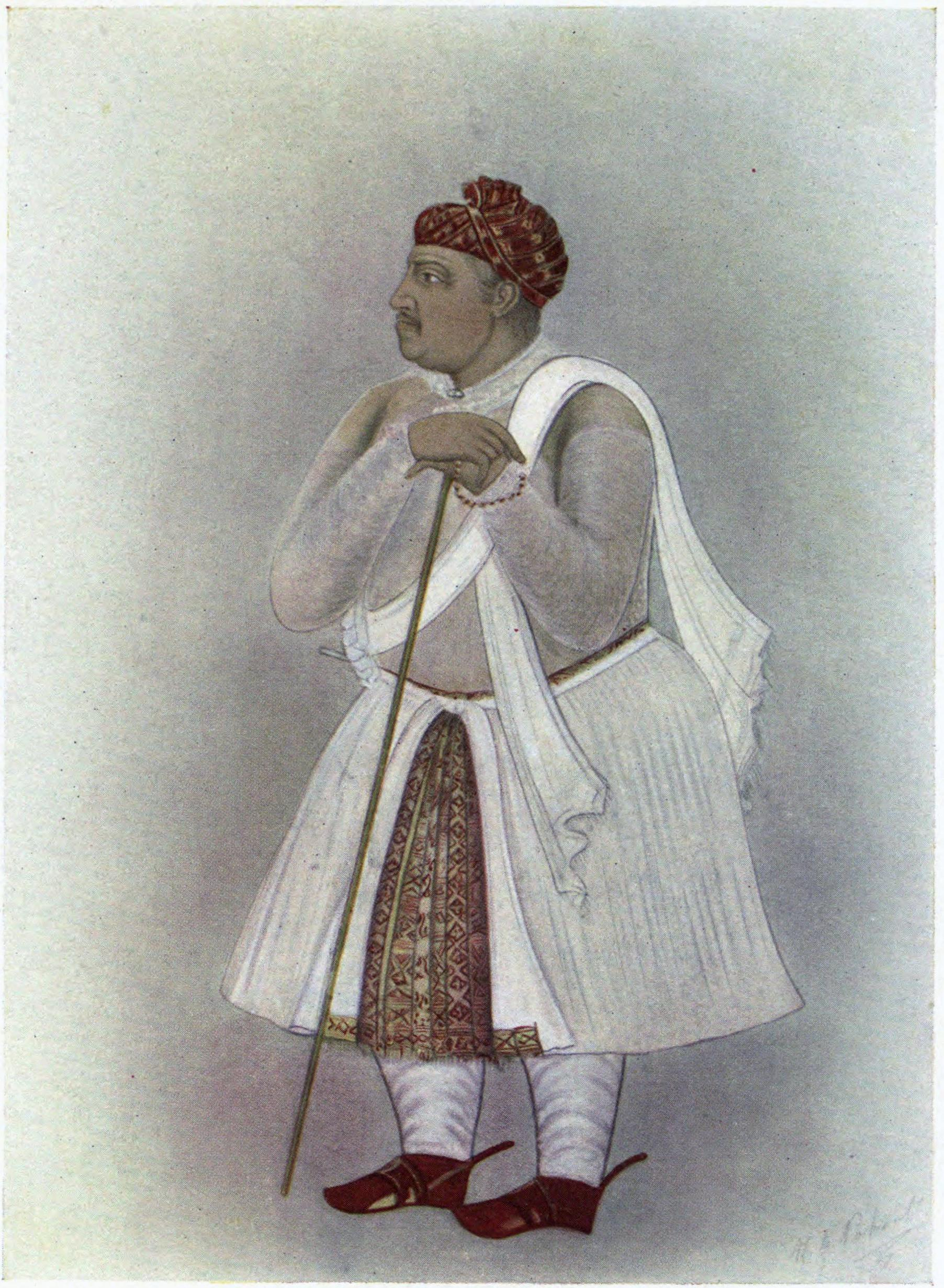 The Rajputs: a fighting race; a short account of the Rajput race, its warlike past, its early connections with Great Britain, and its gallant services at the present moment at the front (1915) Author: Jessrajsingh Seesodia Subject: Rajput (Indic people) Publisher: London, East and West, ltd. Possible copyright status: NOT_IN_COPYRIGHT Language: English Call number: nrlf_ucb:GLAD-50521797 Digitizing sponsor: MSN Book contributor: University of California Libraries Collection: cdl; americana Full catalog record: MARCXML [Open Library icon]This book has an editable web page on Open Library.